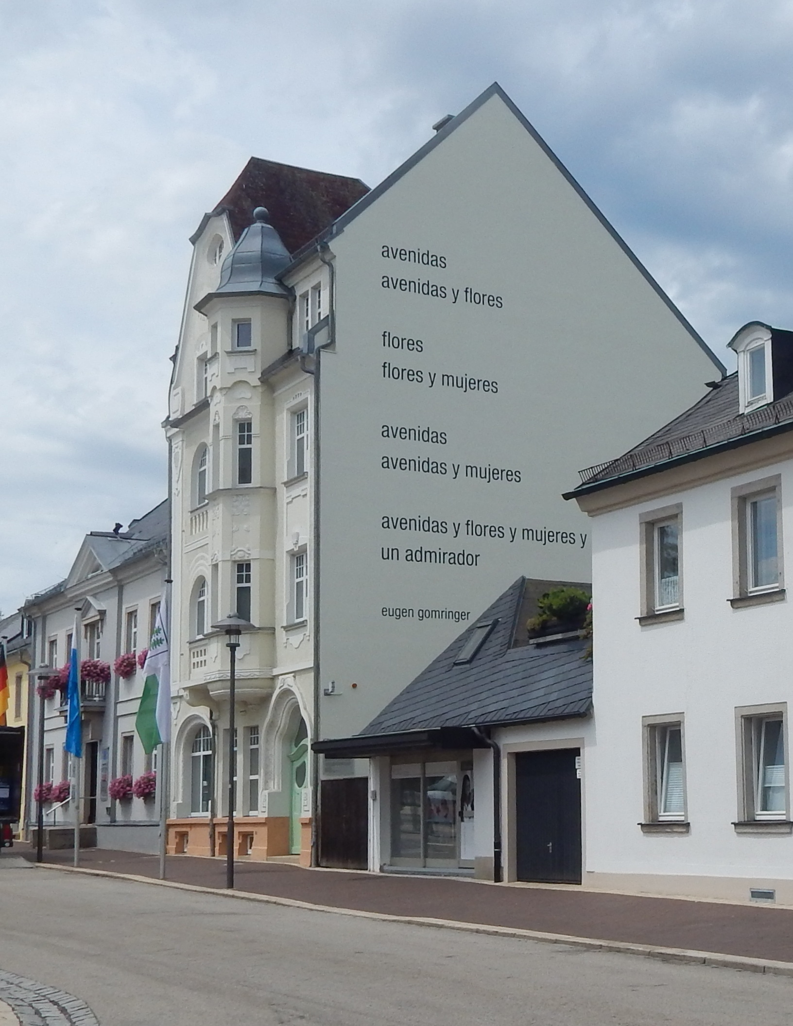 Poem "avenidas y flores y mujeres y un admirador" by Eugen Gomringer at the wall of the Museum am Maxplatz in Rehau